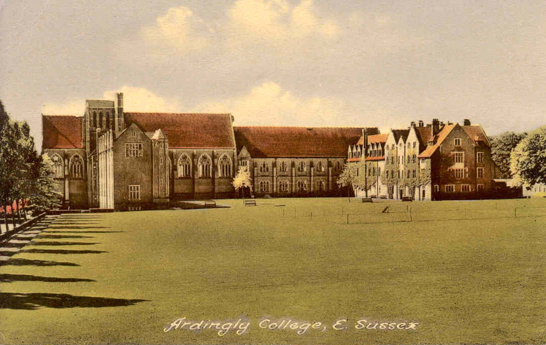 Postcard from 1909 featuring Ardingly public school